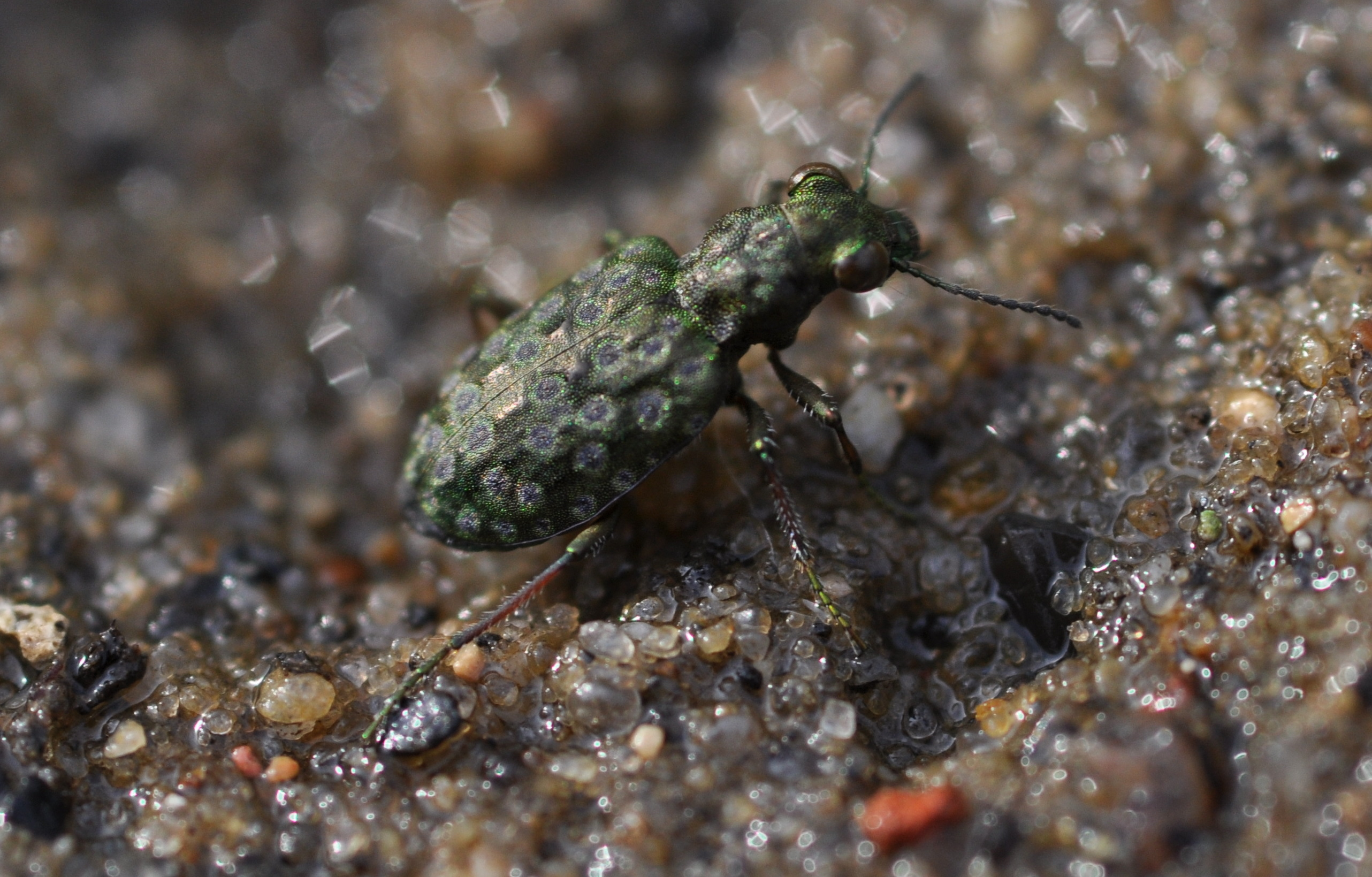 Elaphrus riparius in Bahrenfeld, Hamburg.